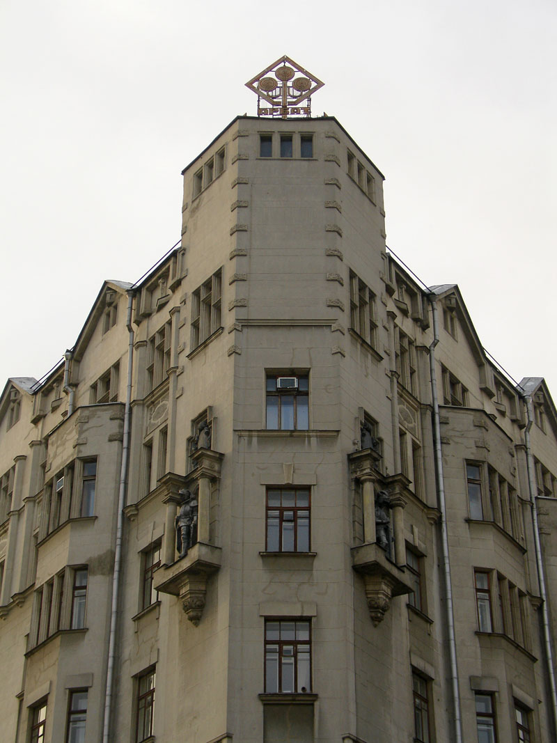 Arbat Street, Moscow. Unusually few people - between New Year and (orthodox) Christmas the city looks deserted.